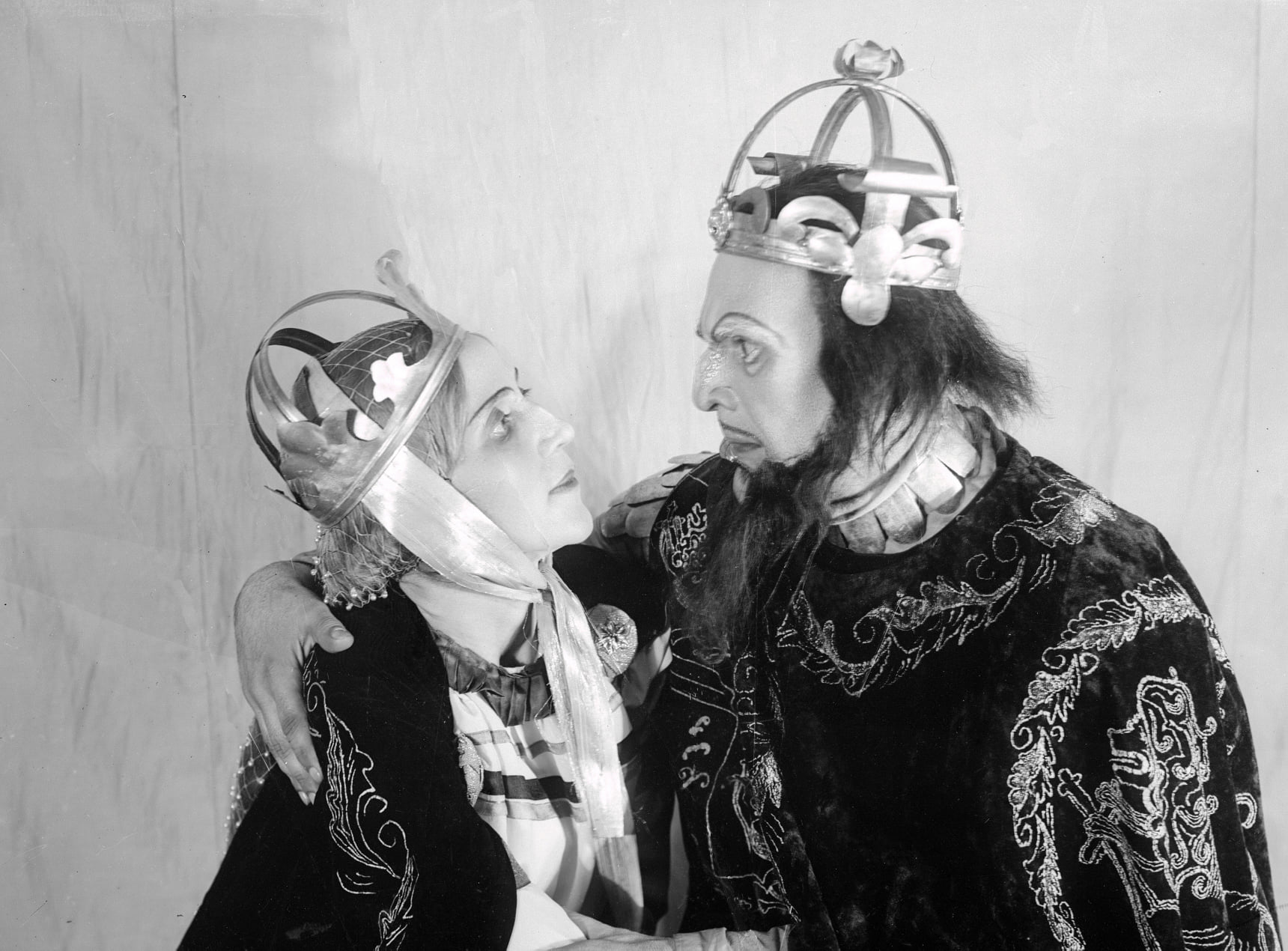 Azerbaijani actors Marziya Davudova and Abbas Mirza Sharifzade play Macbeth. Director A. Tuganov